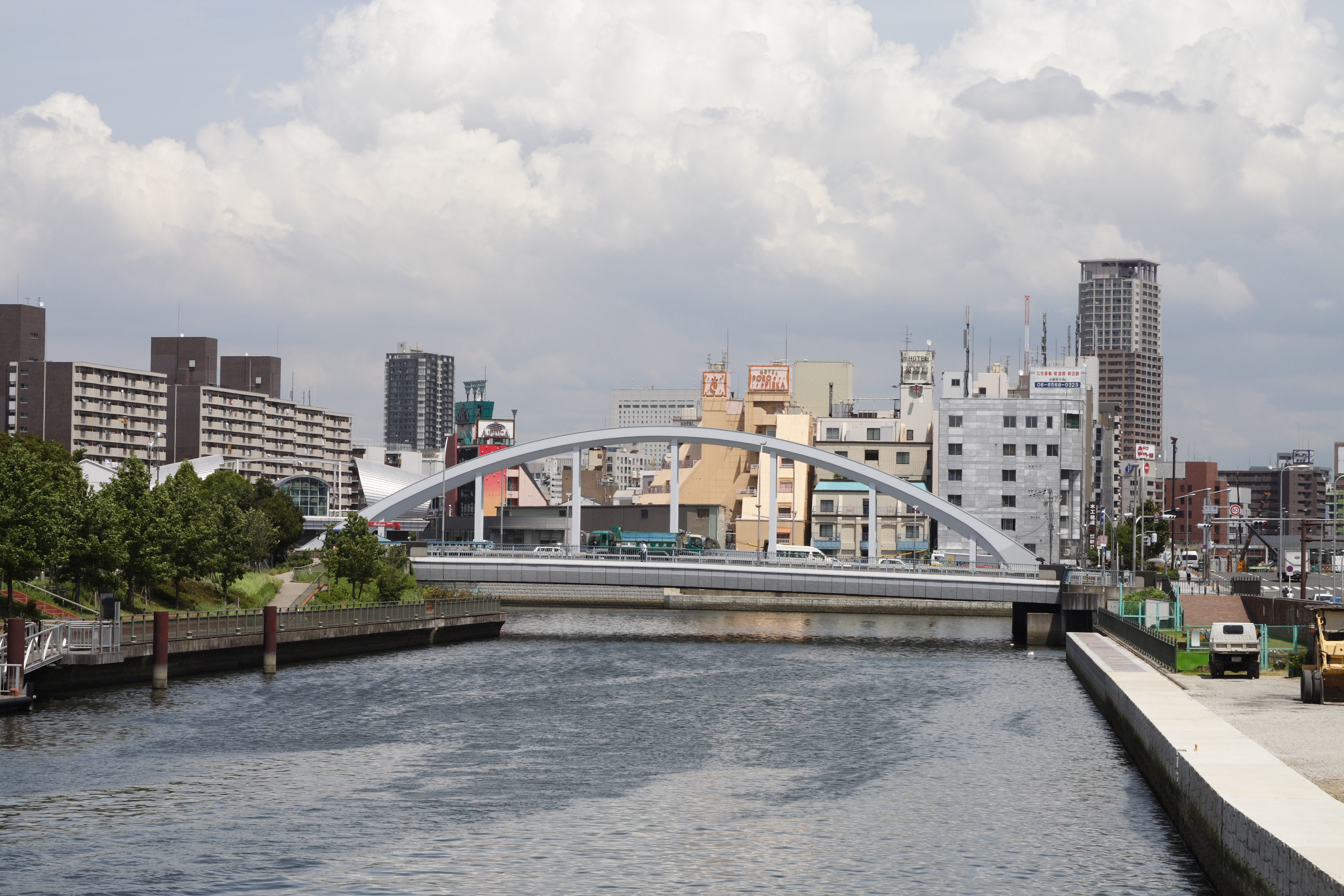 Iwamatsubashi Bridge / 岩松橋